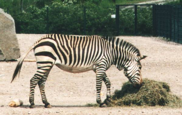 Mountain Zebra in Tierpark Berlin.